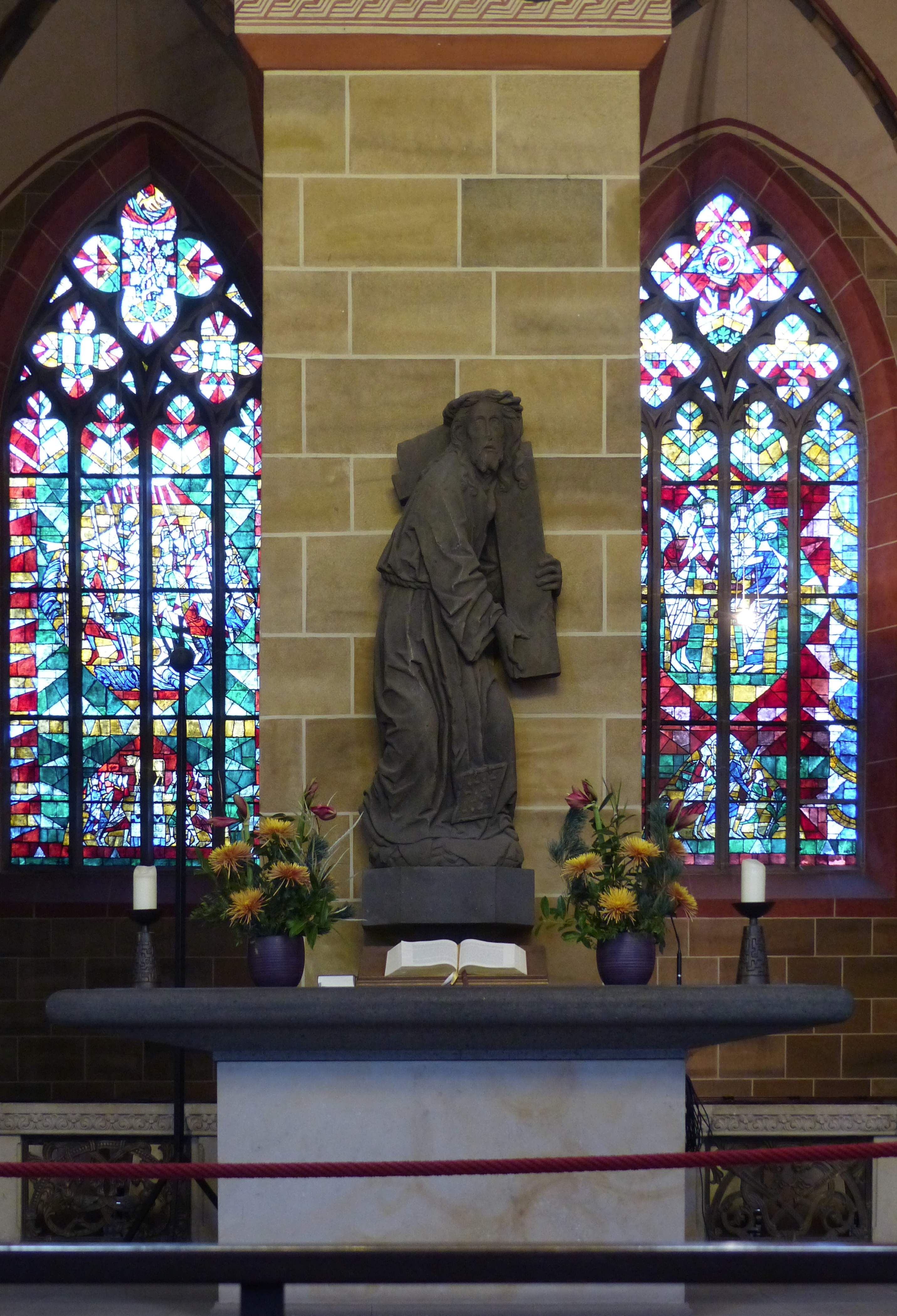 Bremen Cathedral, altar for ordinary worship in the middles of the right side of the central nave, decorated by the torso of a cross carrying Christ, till 1888 placed outside on the western façade.